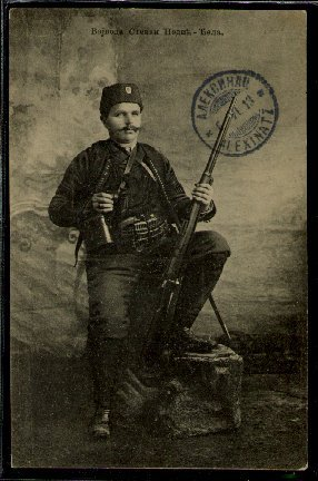 Postcard stamped with "Aleksinac, 1913", with a photography of Serbian Chetnik Voivode Stevan Nedić Ćela